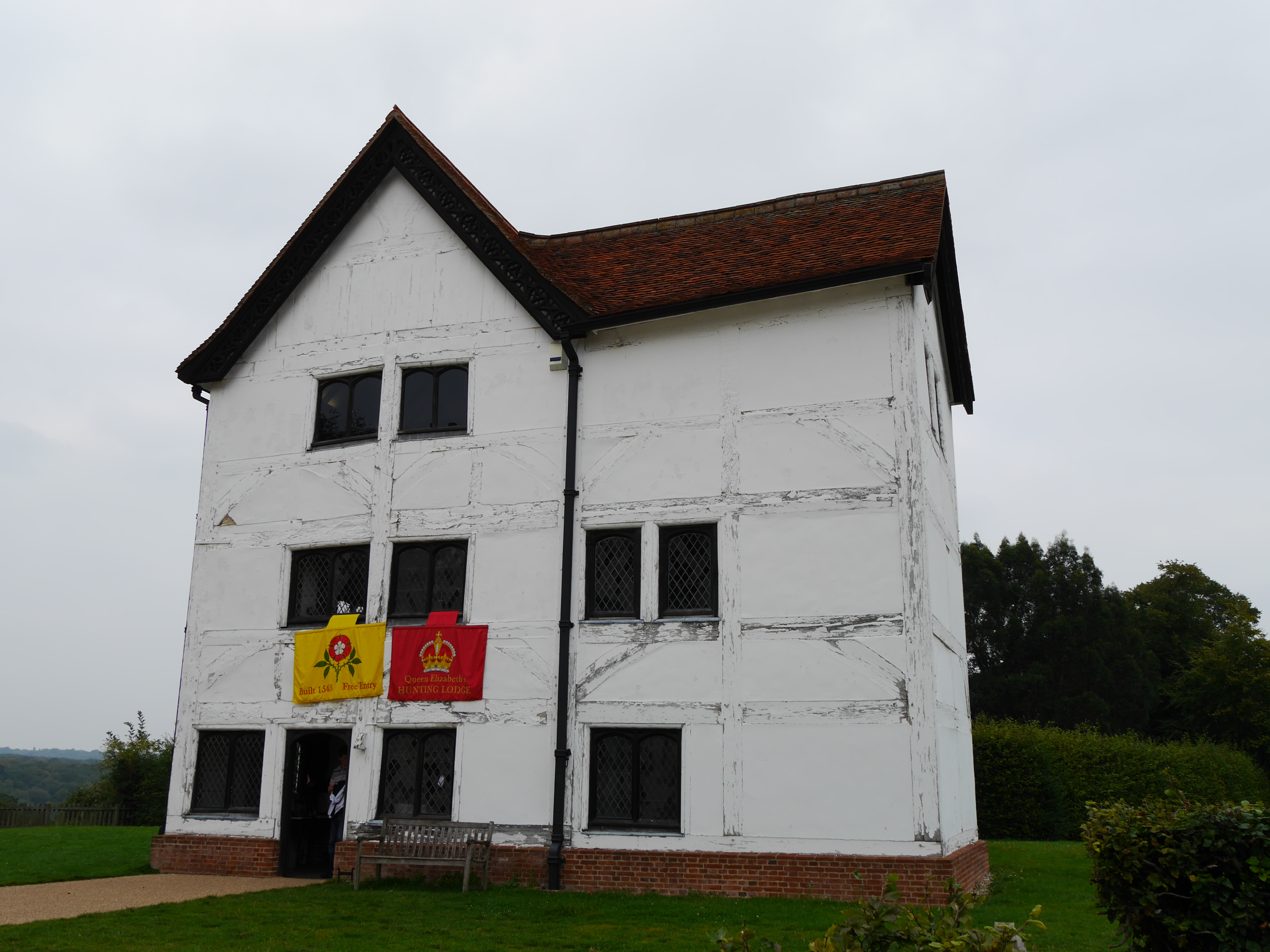 Queen Elizabeth's Hunting Lodge, Chingford, London